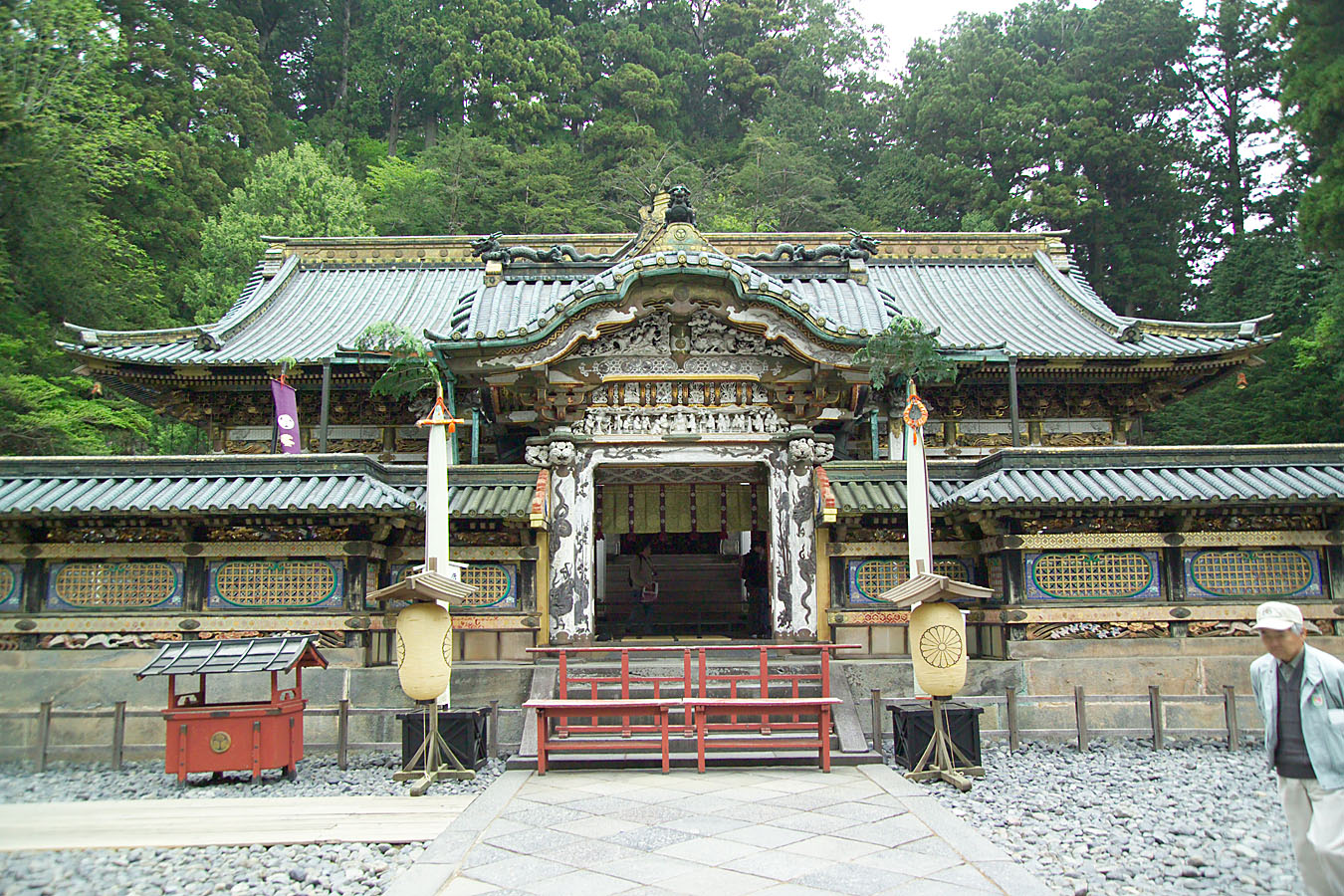 Karamon (Chinese gate), Haiden (prayer hall), and Honden (Main hall) at Toshogu, Nikko, Tochigi Prefecture, Japan, a UNESCO World Heritage Site. I took the photo and contribute it to the public domain. However, people and institutions may retain rights to images in it.